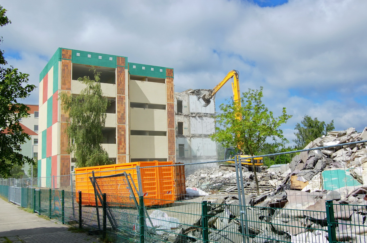 Demolition of the school in Gelbensande